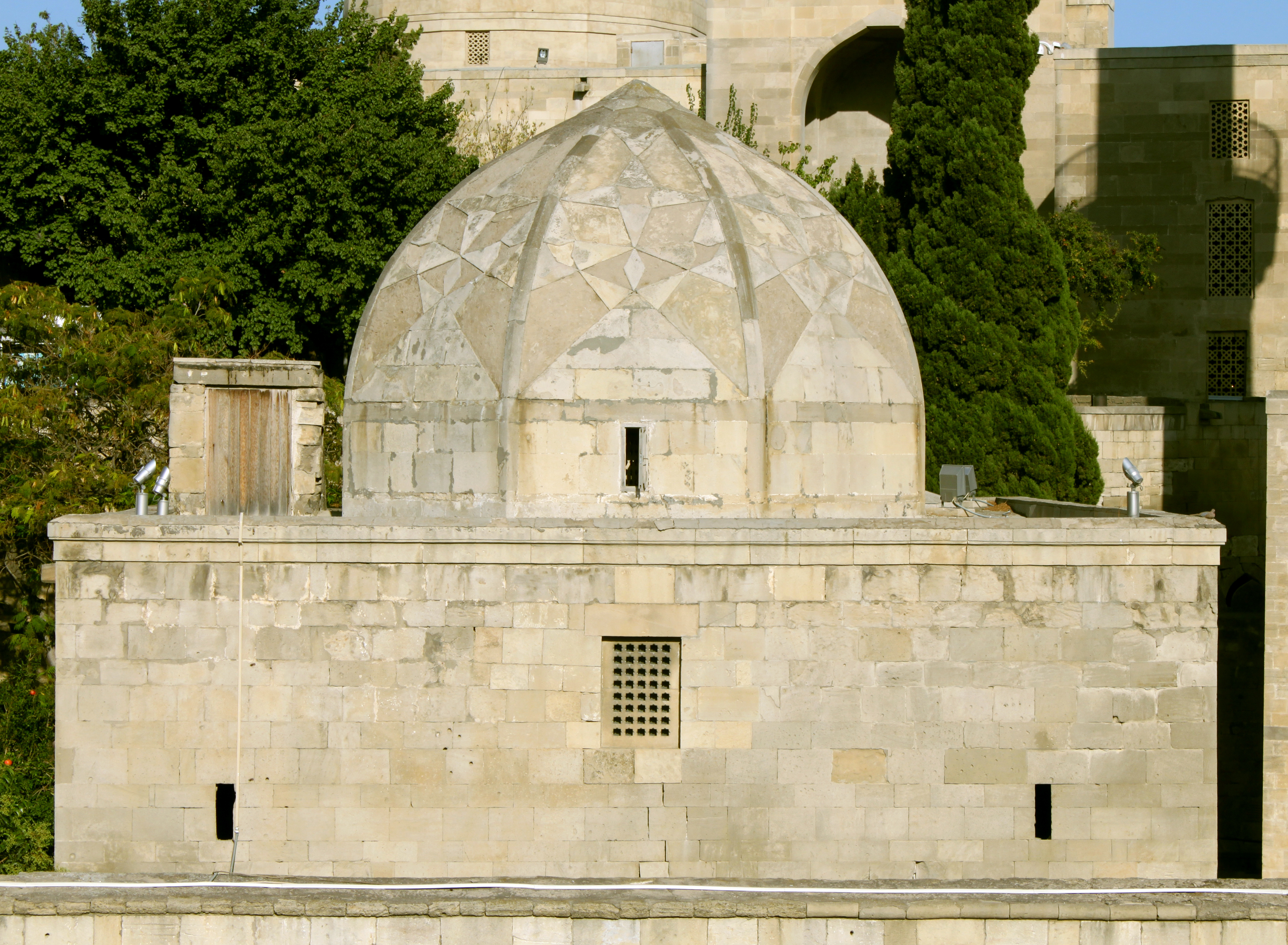 Shirvanshah's Burial Vault common